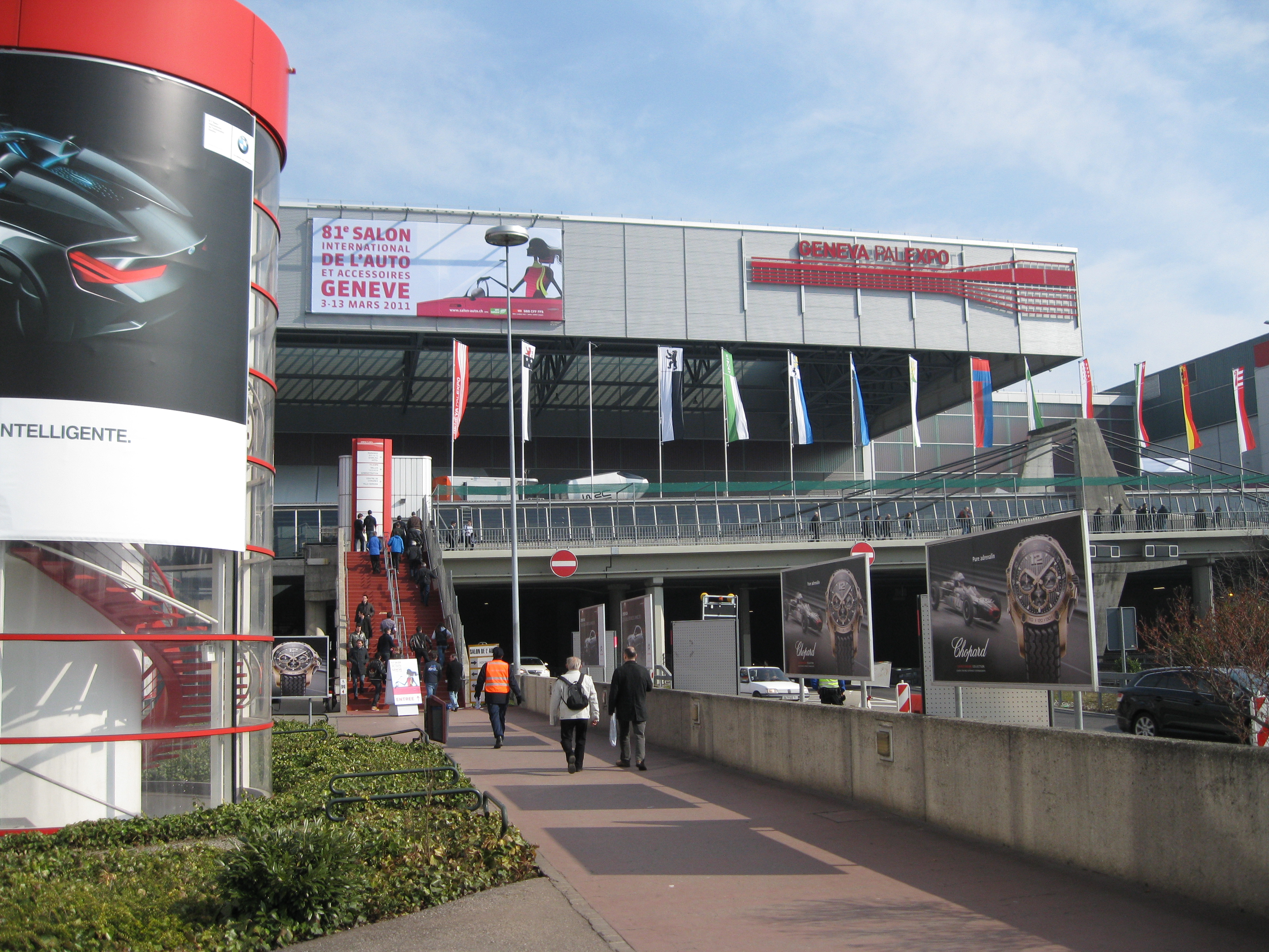 Geneva Motor Show 2011